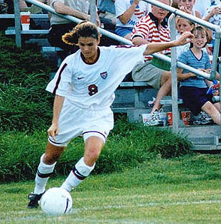 Us womans soccer legend Mia Hamm takes corner kick.